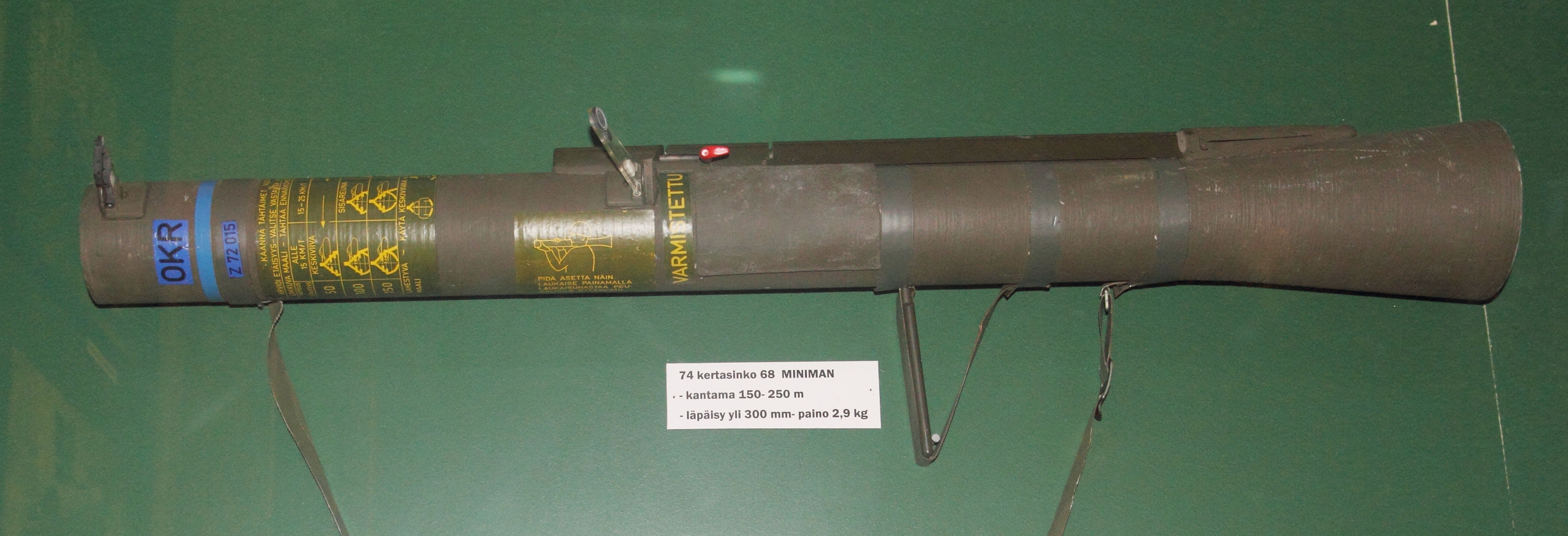 Swedish 74 mm Pansarskott m/68 "Miniman" disposable anti-tank recoilless rifle, used by Finnish army with designation 74 kertasinko 68 Miniman. Photographed in Mikkeli infantry museum.